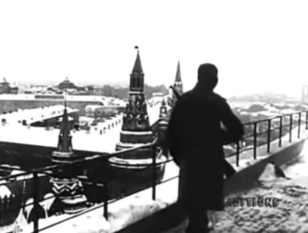 Still from Moscow Strikes Back, Soviet documentary of the Battle of Moscow. Directed by Ilya Kopalin. 1 of 4 films to win the 1943 Academy Award for Best Documentary.